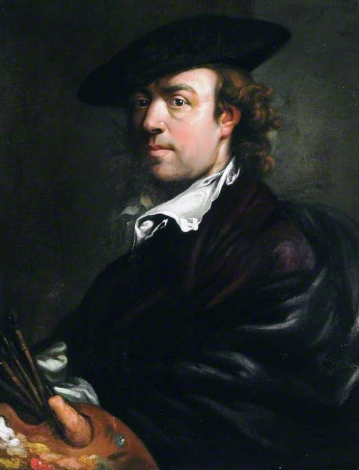 Self portrait oil on canvas 72.4 x 55 cm 1660–1670